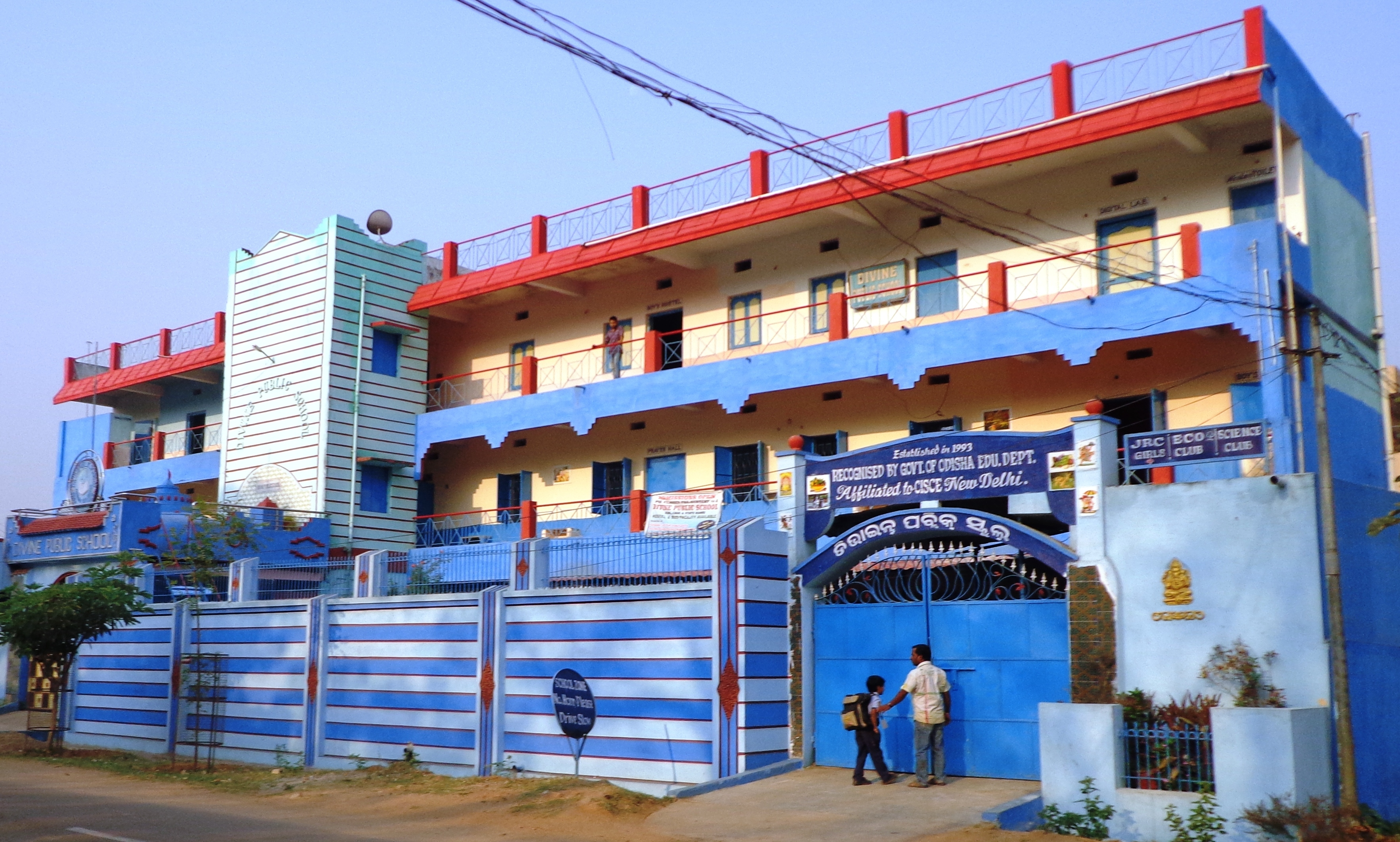 Divine Public School, Rayagada